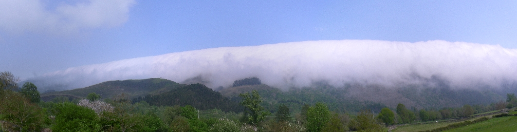 Fohen effect in the Sierra del Escudo de Cabuérniga seen from Ruente.